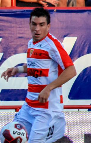 Uruguayan player Jorge Marcelo Rodríguez